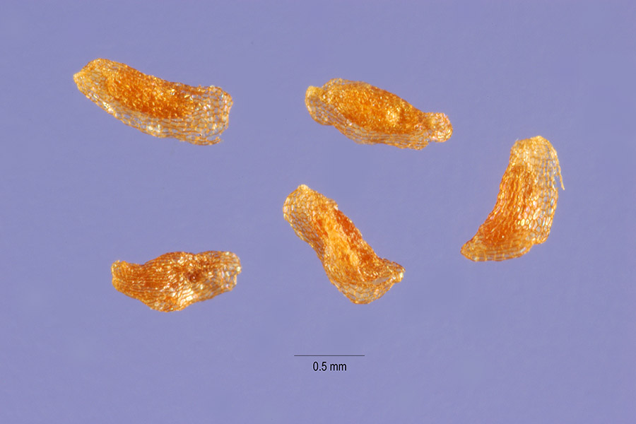 Seeds of Parnassia palustris